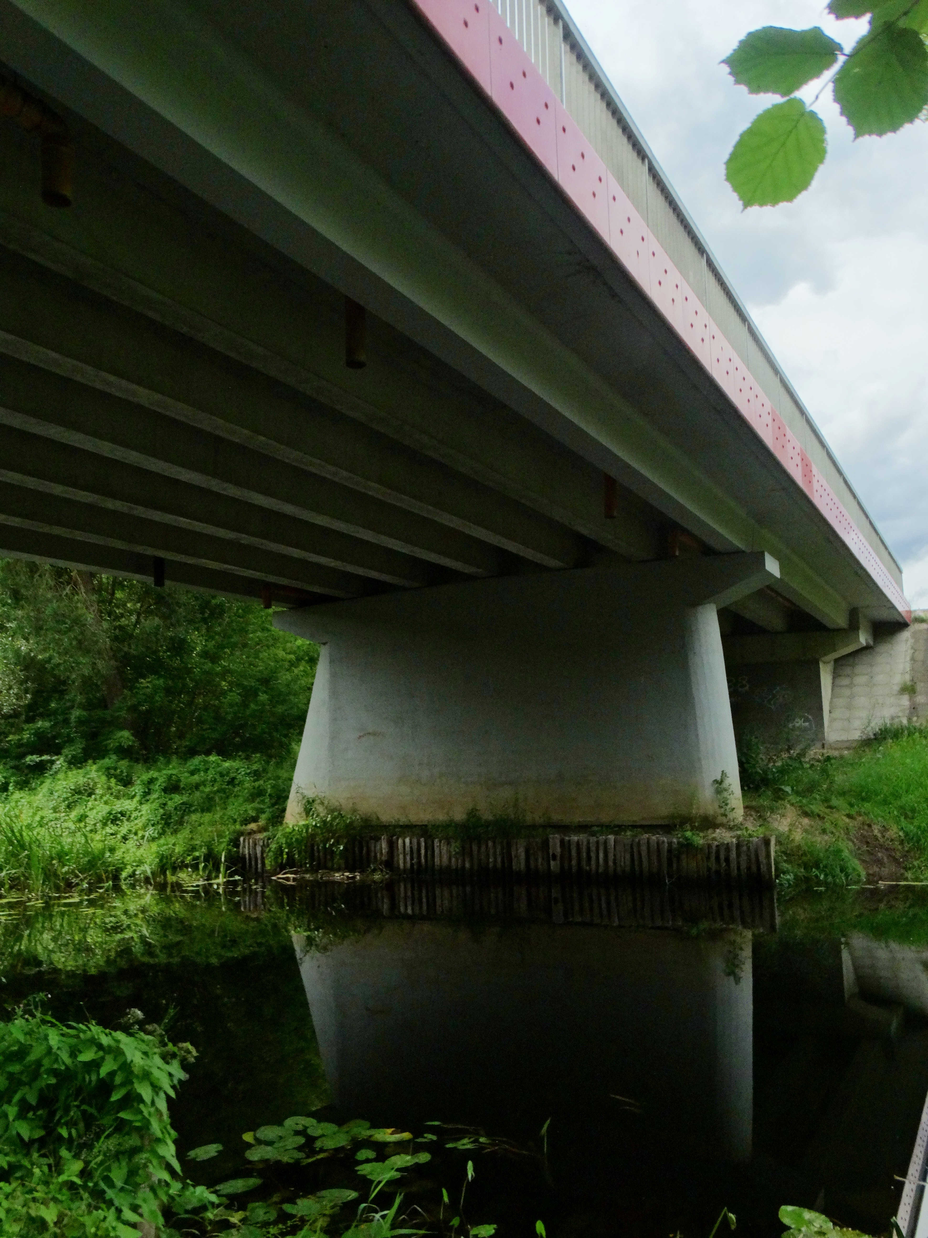 Bridge by Karsakiškis, Panevėžys District, Lithuania